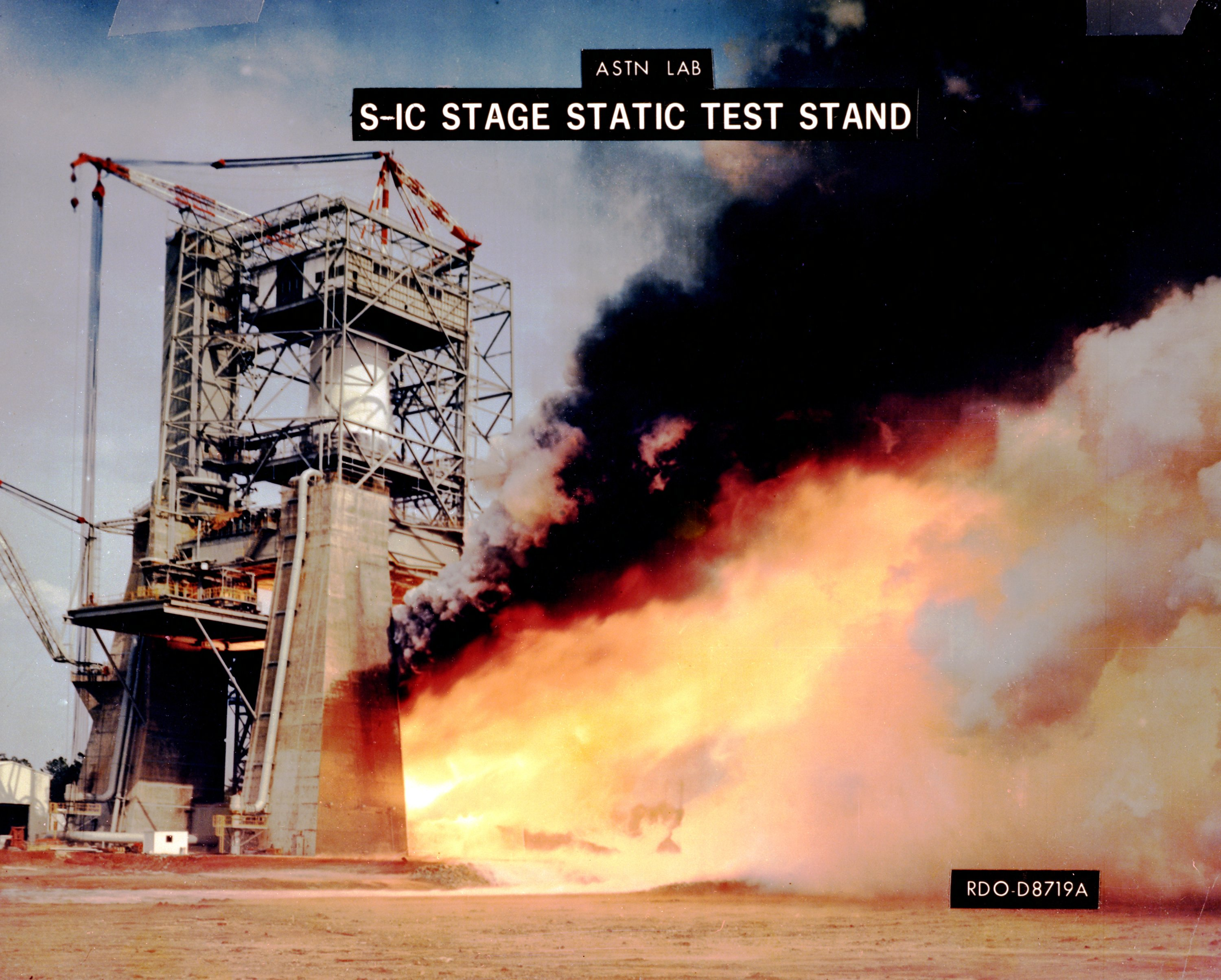 This photograph depicts a view of the test firing of all five F-1 engines for the Saturn V S-IC test stage at the Marshall Space Flight Center. The S-IC stage is the first stage, or booster, of a 364-foot long rocket that ultimately took astronauts to the Moon. Operating at maximum power, all five of the engines produced 7,500,000 pounds of thrust. The S-IC Static Test Stand was designed and constructed with the strength of hundreds of tons of steel and cement, planted down to bedrock 40 feet below ground level, and was required to hold down the brute force of the 7,500,000-pound thrust. The structure was topped by a crane with a 135-foot boom. With the boom in the up position, the stand was given an overall height of 405 feet, placing it among the highest structures in Alabama at the time. When the Saturn V S-IC first stage was placed upright in the stand , the five F-1 engine nozzles pointed downward on a 1,900-ton, water-cooled deflector. To prevent melting damage, water was sprayed through small holes in the deflector at the rate 320,000 gallons per minute.